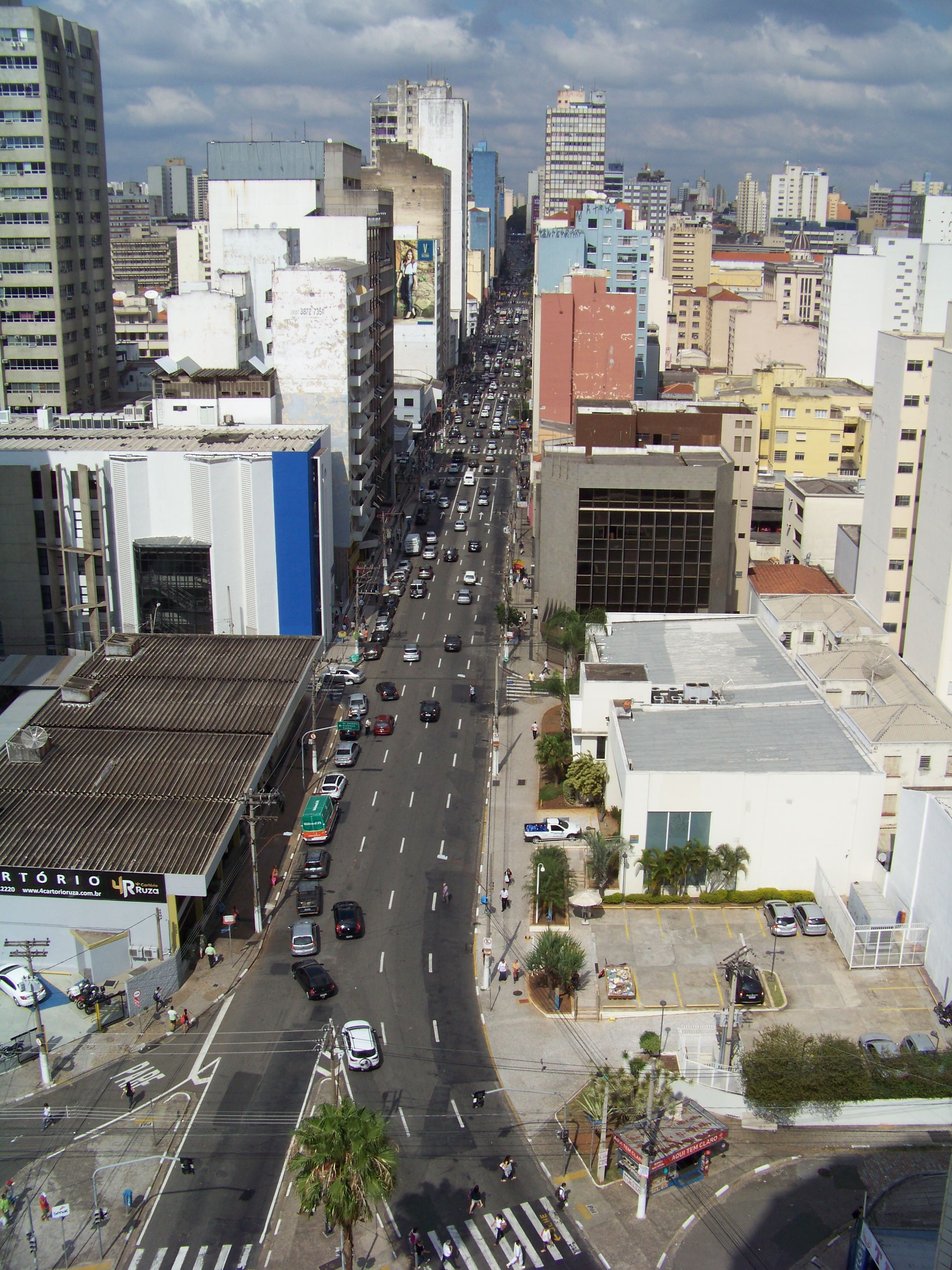 Francisco Glicério Ave., the main avenue crossing Campinas downtown North-South.